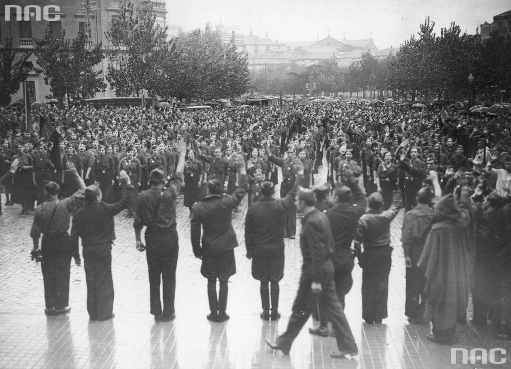 Members of the Spanish Falange in front of the basilica of Nuestra Señora del Pilar in Saragossa.